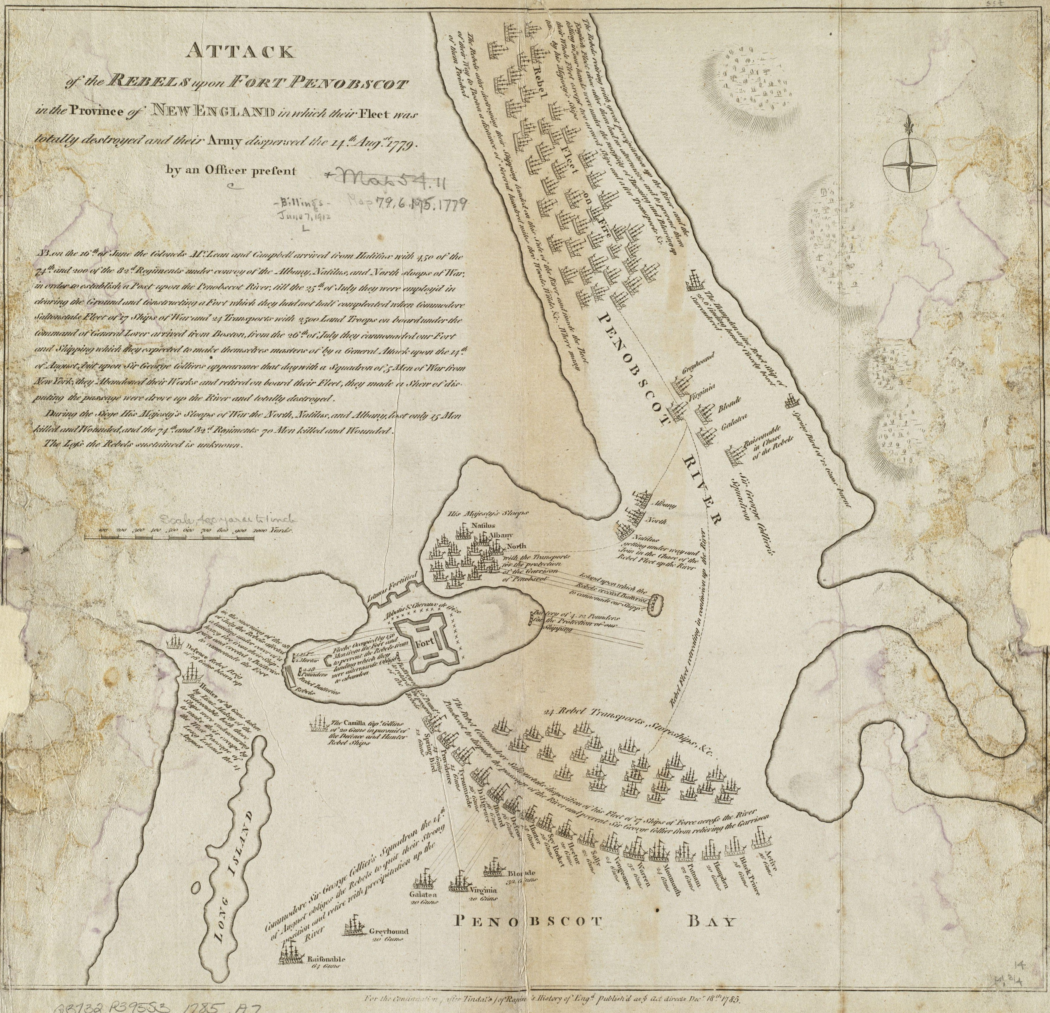 This 1785 map depicts the 1779 naval action of the Penobscot Expedition. The original map measures 36.0x38.0 cm. The map is in mirror image to the actual geography; the Penobscot River is actually to the peninsula's west. The caption reads: "Attack of the rebels upon Fort Penobscot in the province of New England in which their fleet was totally destroyed and their Army dispersed the 14th Augst. 1779"